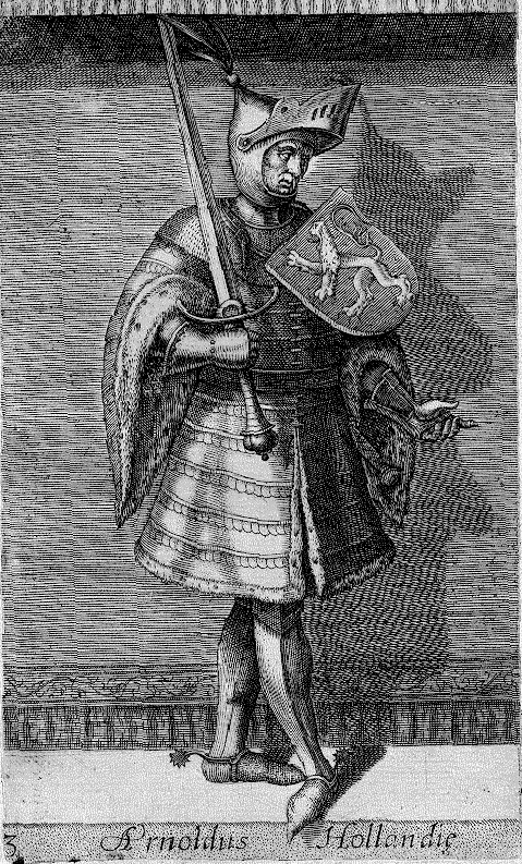 Picture of Arnulf (955-993), count of Holland